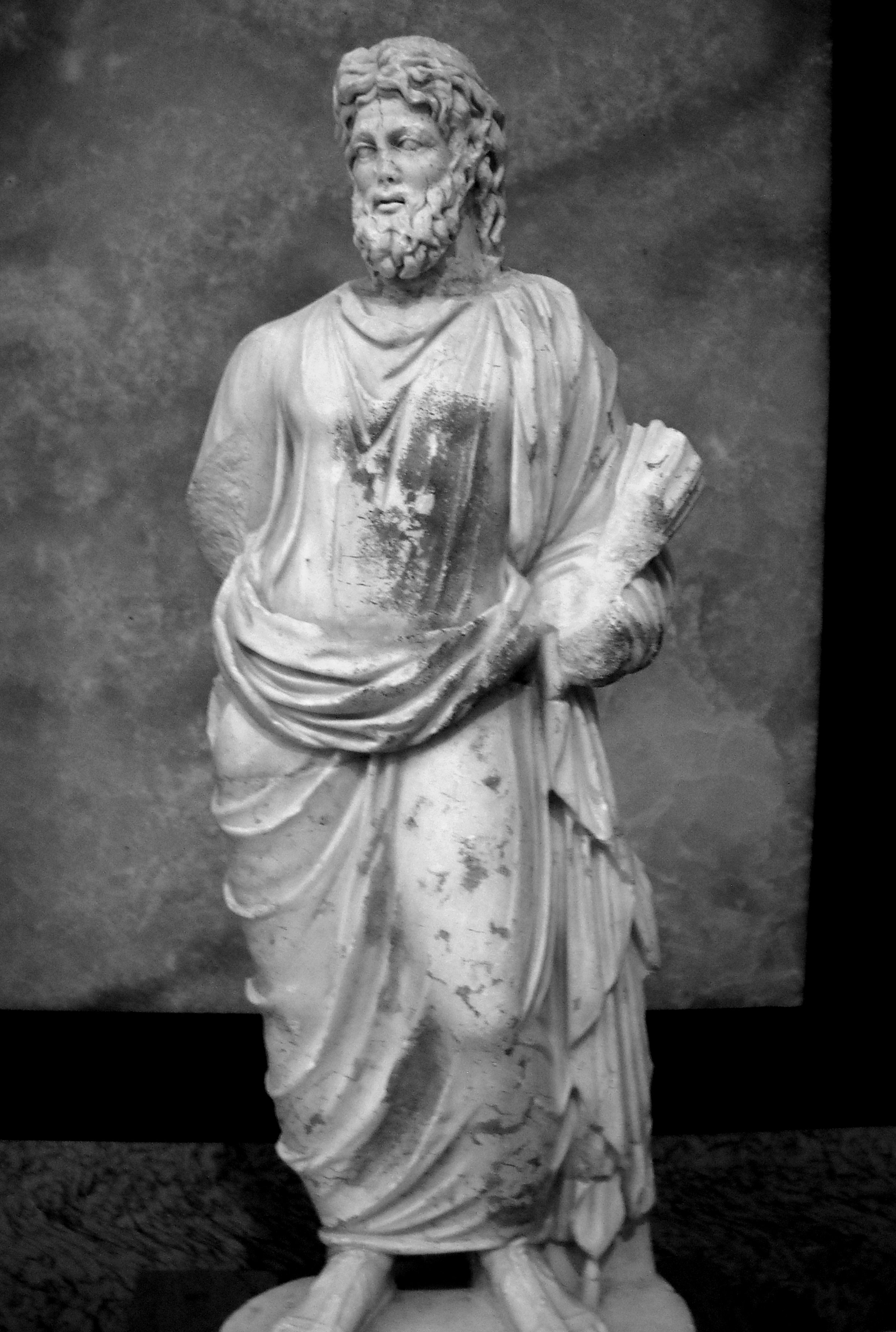 Pluto (Roman, AD 1-100) - In his visage as the Greek god Plouton, god of wealth and agrarian abundance